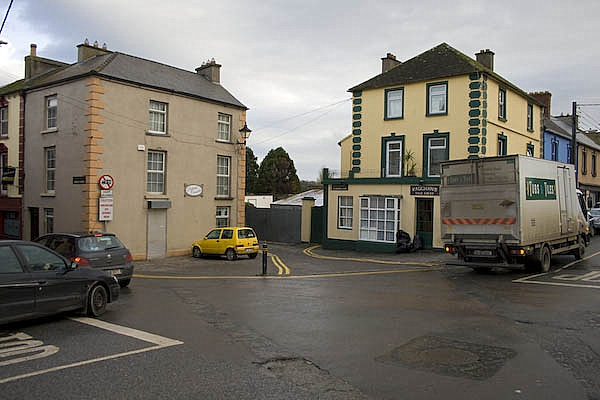 Callan street junction Junction of Mill Street and Green Street in Callan.